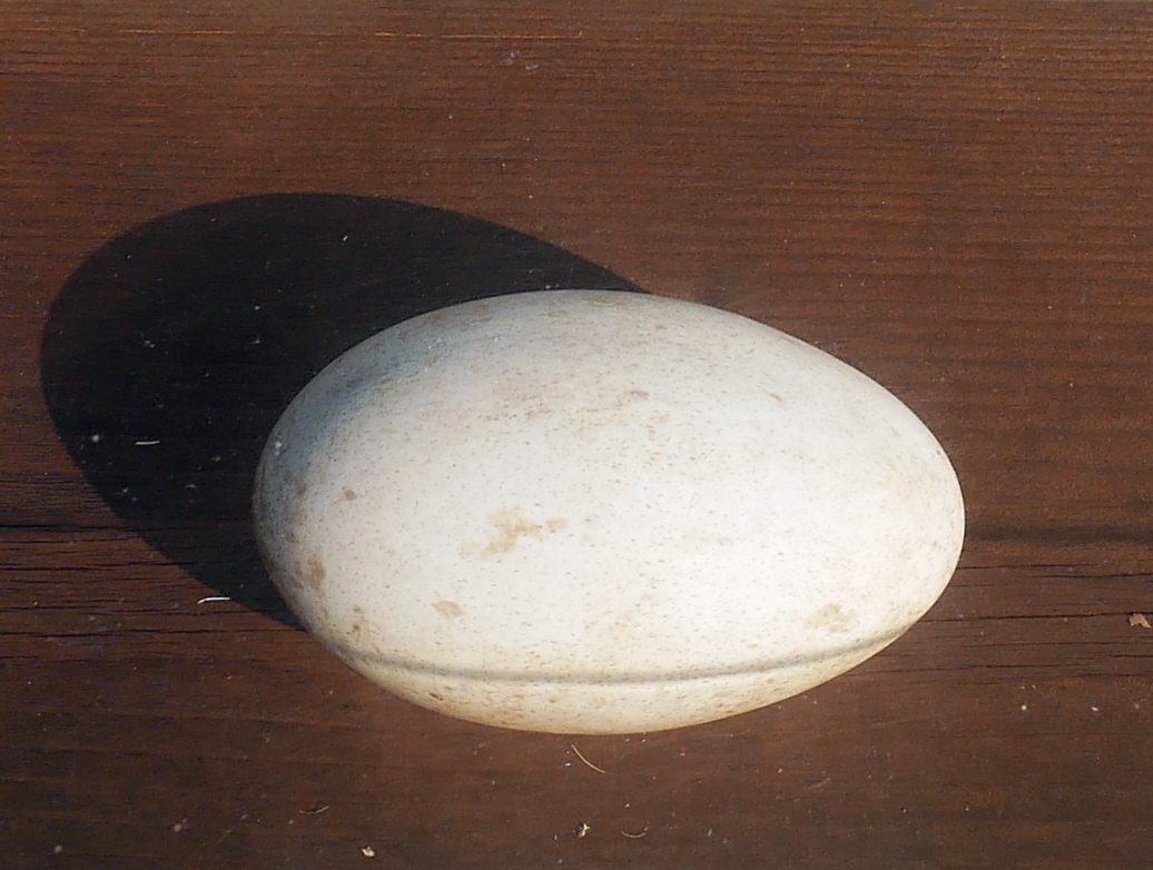 タンチョウの卵（Red-crowned crane egg）